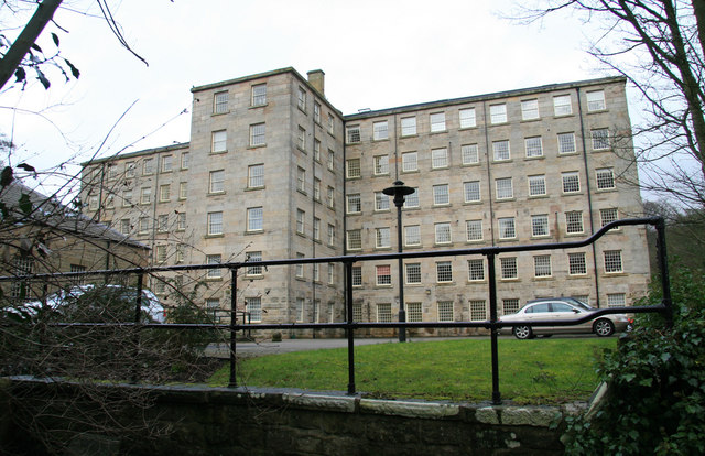 Calver Mill in Derbyshire. Imposing 6 storey textile mill of 1803-04 that replaced an earlier mill of 1785. The wheelhouse on the left dates from 1834 and housed a pair of water wheels of 80 hp each. Now converted to apartments and secure behind electric gates. OSGB36: geotagged! SK 247 745 [100m precision] WGS84: 53:16.0585N 1:37.8675W